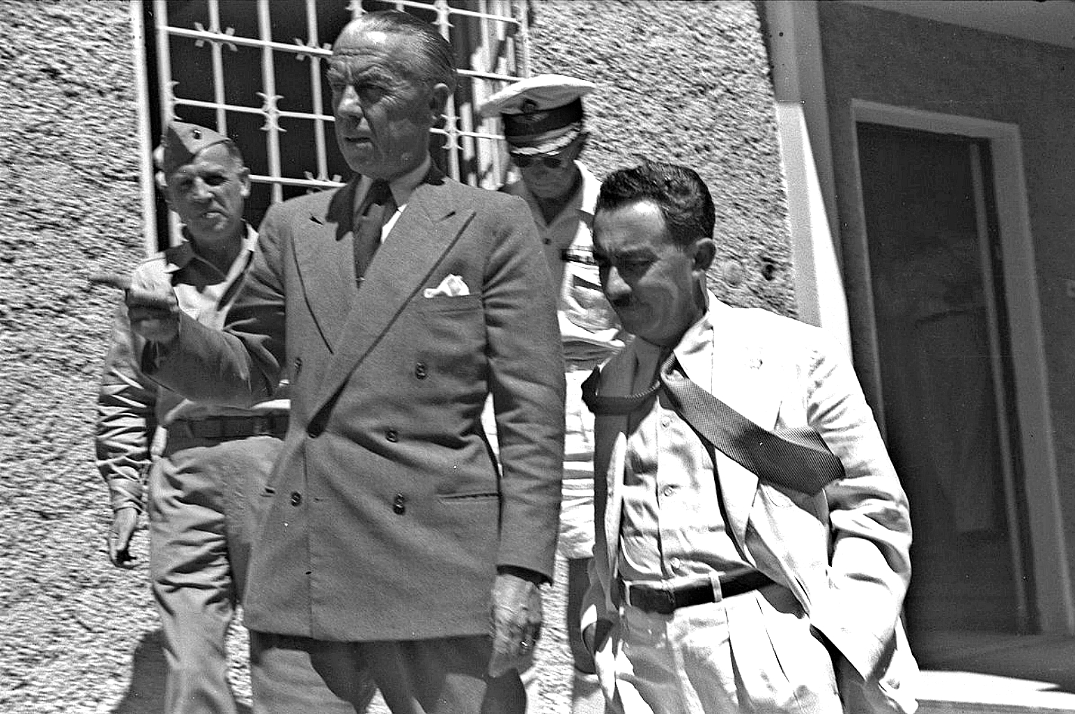 Count Bernadotte (L) Visiting Foreign Min. Mr. Moshe Sharett At Hakirya.